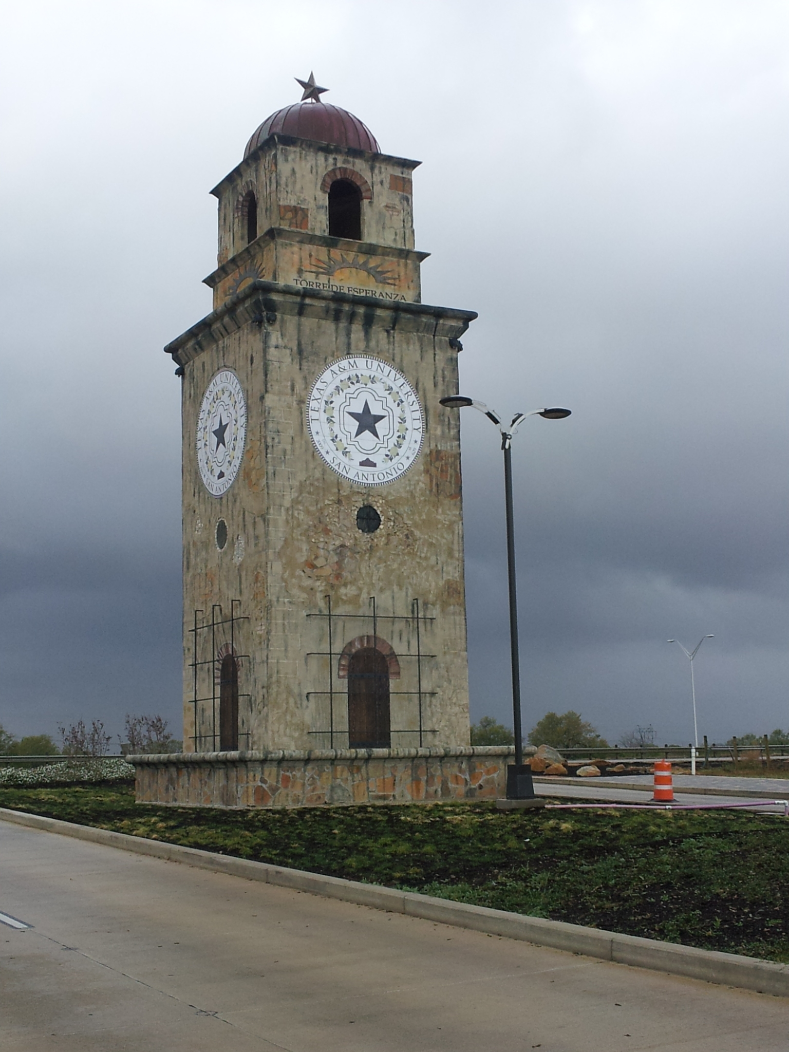 Canted view of tower at University Way and SW Loop 410